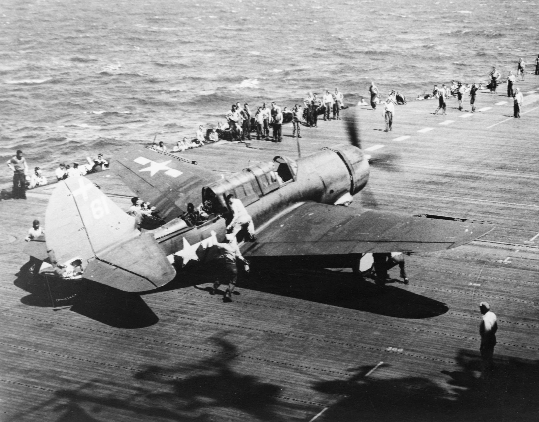 A U.S. Navy Curtiss SB2C-3 Helldiver of Bombing Squadron 18 (VB-18) "Sunday Punchers" is maneuvered into position aboard the aircraft carrier USS Intrepid (CV-11) after returning from a combat mission during the Battle of Leyte Gulf. The aircraft has suffered battle damage on the tail from Japanese antiaircraft fire. Note cross on tail of Helldiver, the symbol for Intrepid aircraft. VB-18 operated from Intrepid during the period August-November 1944.